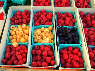 This is photo I took at the Old LA Certified Farmers Market